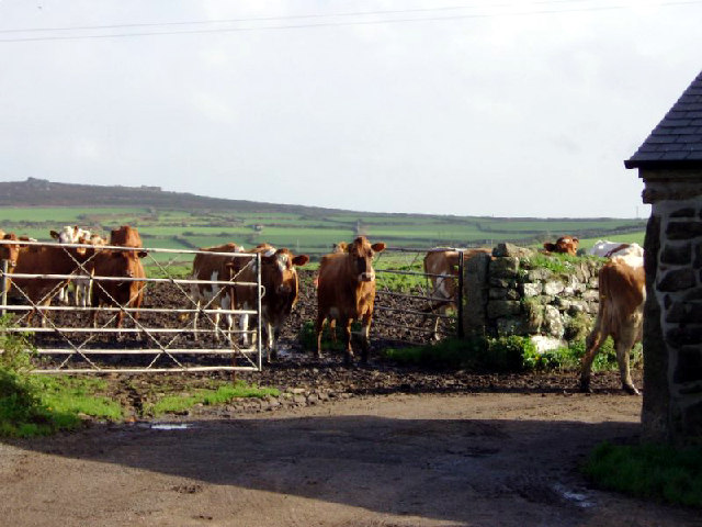 Milking time at Keigwin. Looking east. Dry Carn in the background.